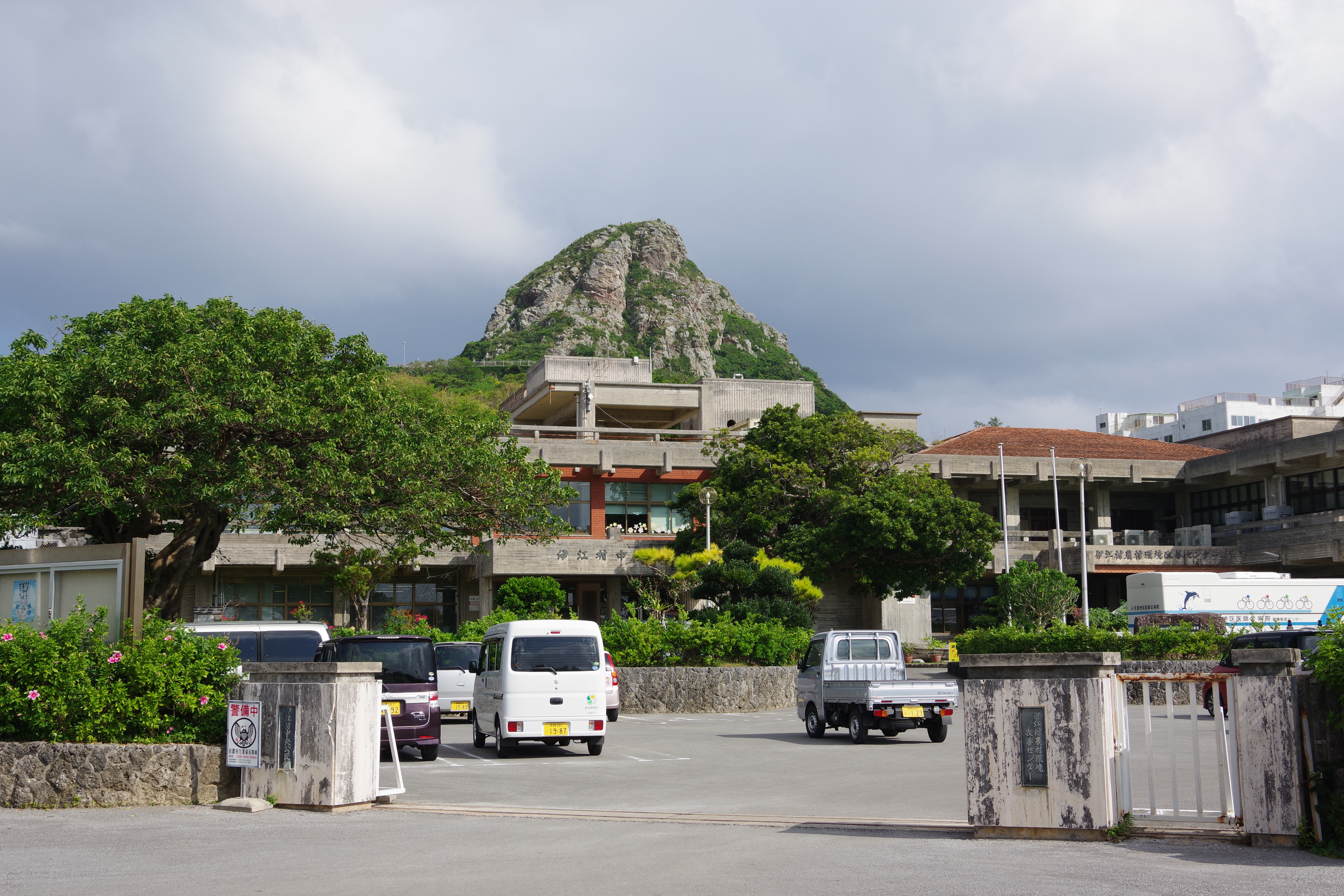 Ie Village Agricultural Environment Inprovement Center